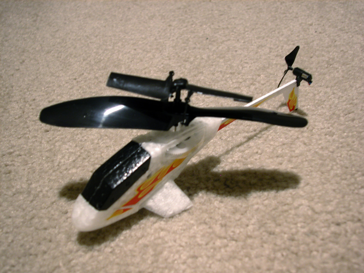 Front view of the PicooZ remote controlled helicopter from Silverlit Toys. Camera used was a Nikon Coolpix 5000.